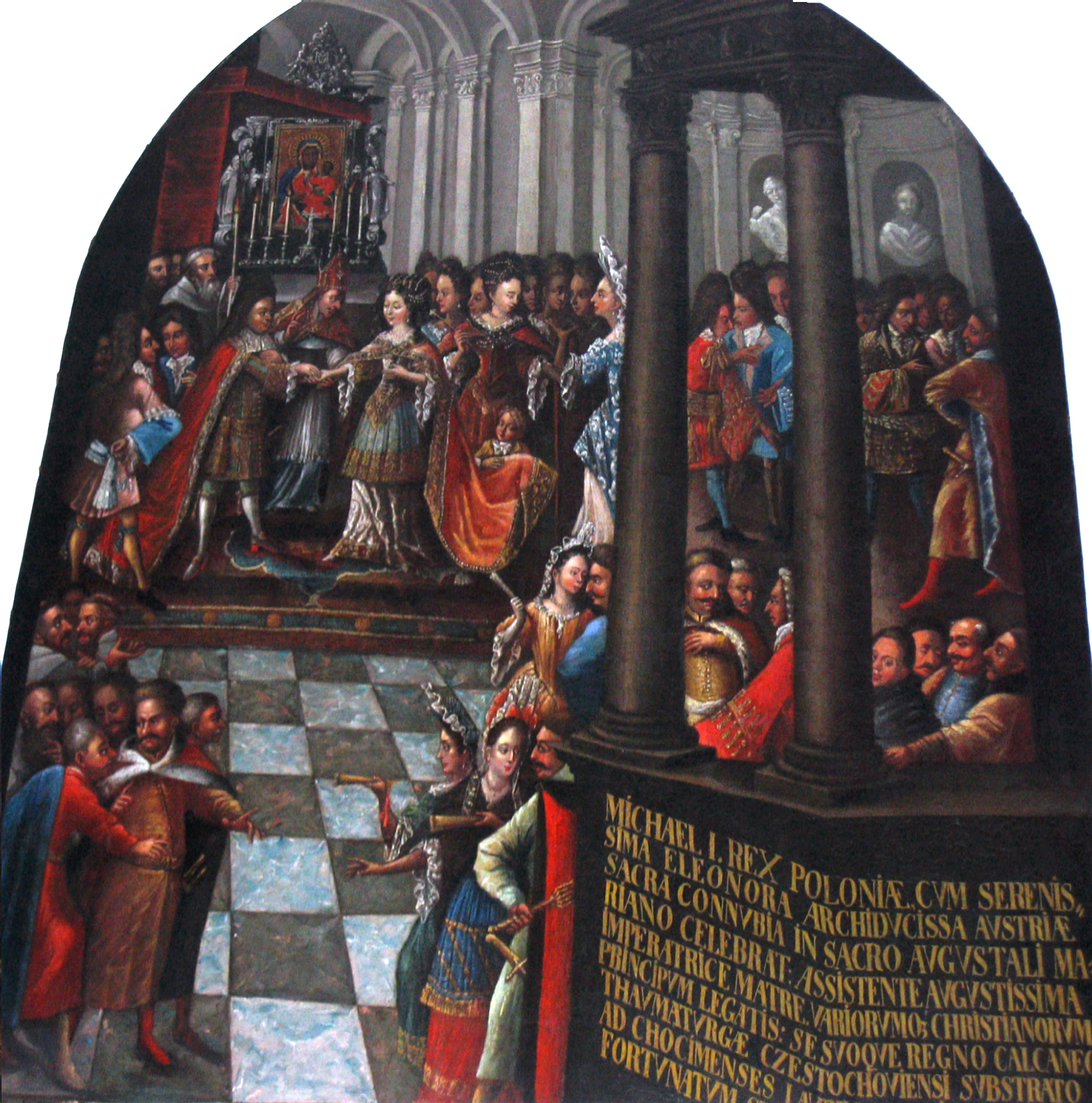 Royal Wedding of Michał Wiśniowiecki King of Poland and Eleonor of Habsburg at Jasna Góra 1670